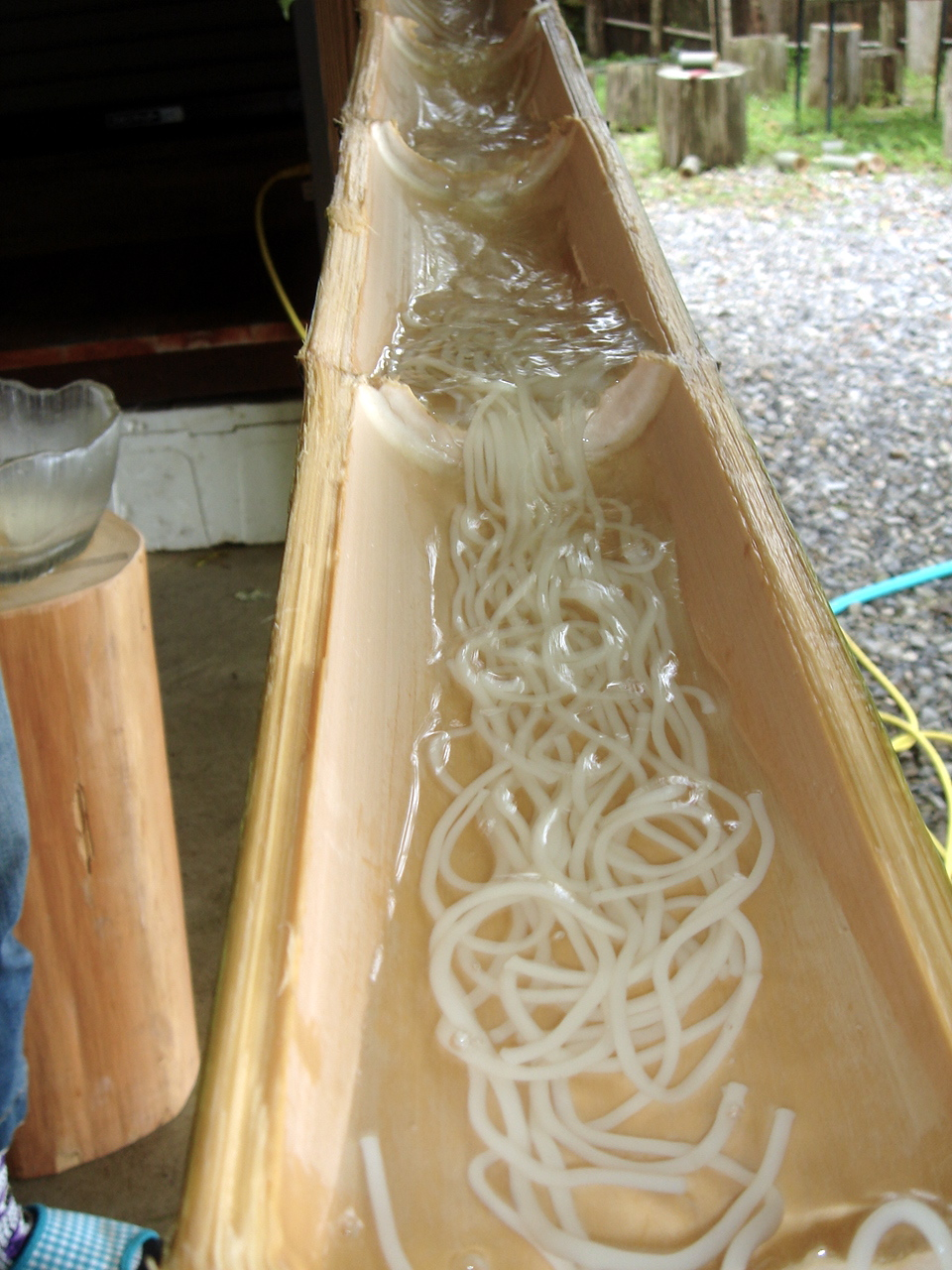 Nagashi somen